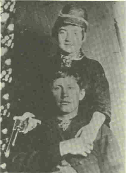 Cowboy and outlaw Jesse Evans with an unidentified woman, around 1870. Note that it is the women who's holding the gun, not Evans. It is claimed to be Jesse Evans, but up to this day, historians are not quite sure.